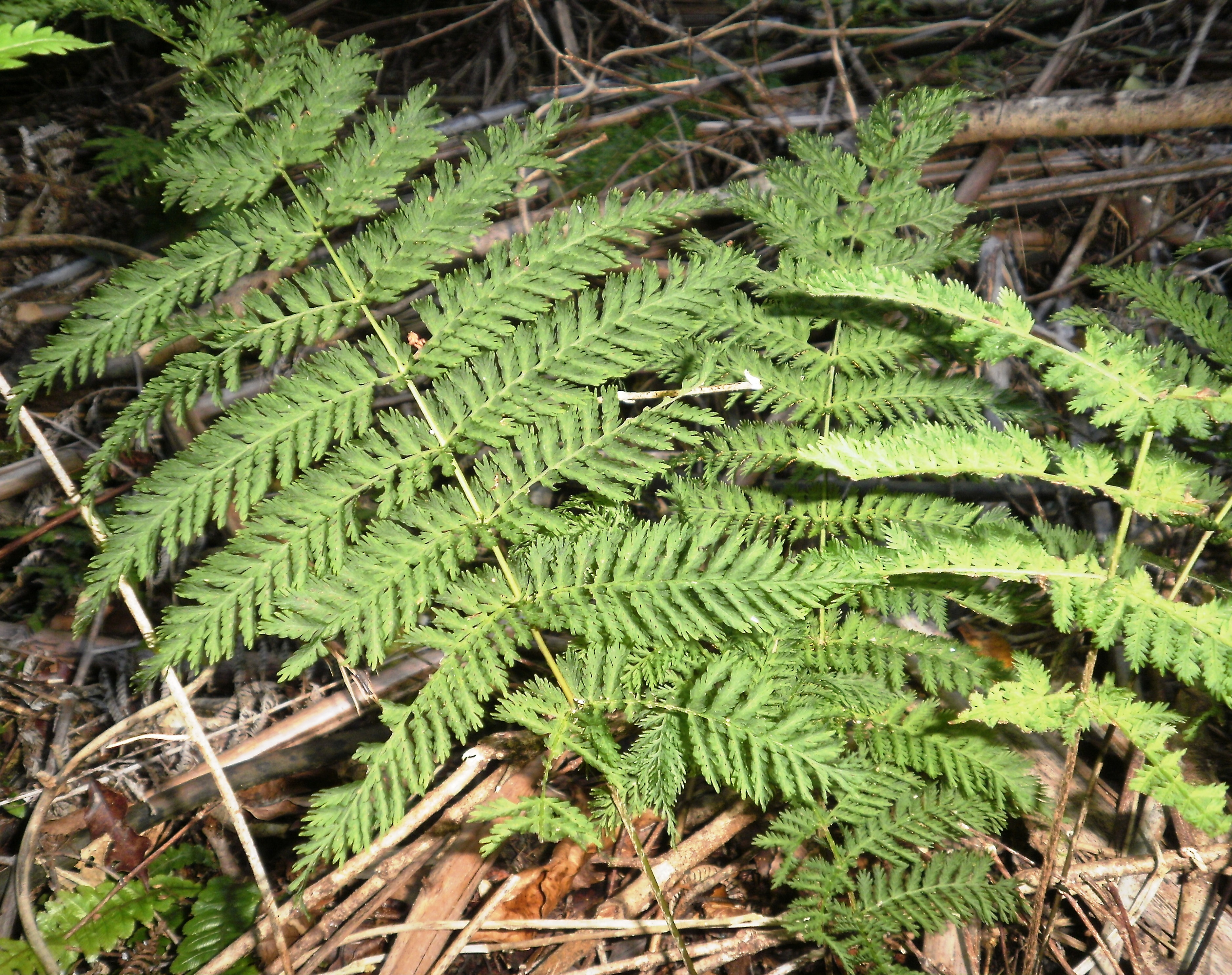 Leptolepia novae-zealandiae, or lace fern, in Upper Hutt, New Zealand.